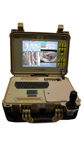 Portatif YKİ Sistemi